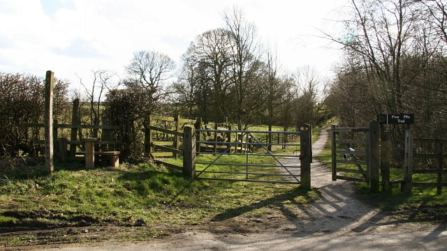 Five Pits Trail The photograph is of the Five Pits Trail (looking in a southerly direction) from its crossing with Timber Lane¹ and close by the 365395. On the left of the photograph a stile leads to the 610521 connecting Timber Lane (at the viewpoint) with 343888¹ (ahead). To the left (easterly) 610327 leads to its 609332. To the right (westerly) 362608 passes a pallet repair and manufacturing company and also Timber Lane Farm¹ before the end of its metalled section. The lane then continues as a footpath along the side of Broomridding Wood before ending at its junction with a bridleway to 361135. For a more southerly (ahead) photograph of the trail as it continues toward 343186, click here 365185. For a more northerly (a few metres behind the viewpoint) photograph of the trail, click here 361950. ¹ Road/Farm name information from OS Maps at:- Elgin, and the Mapping Portal of the Derbyshire Partnership